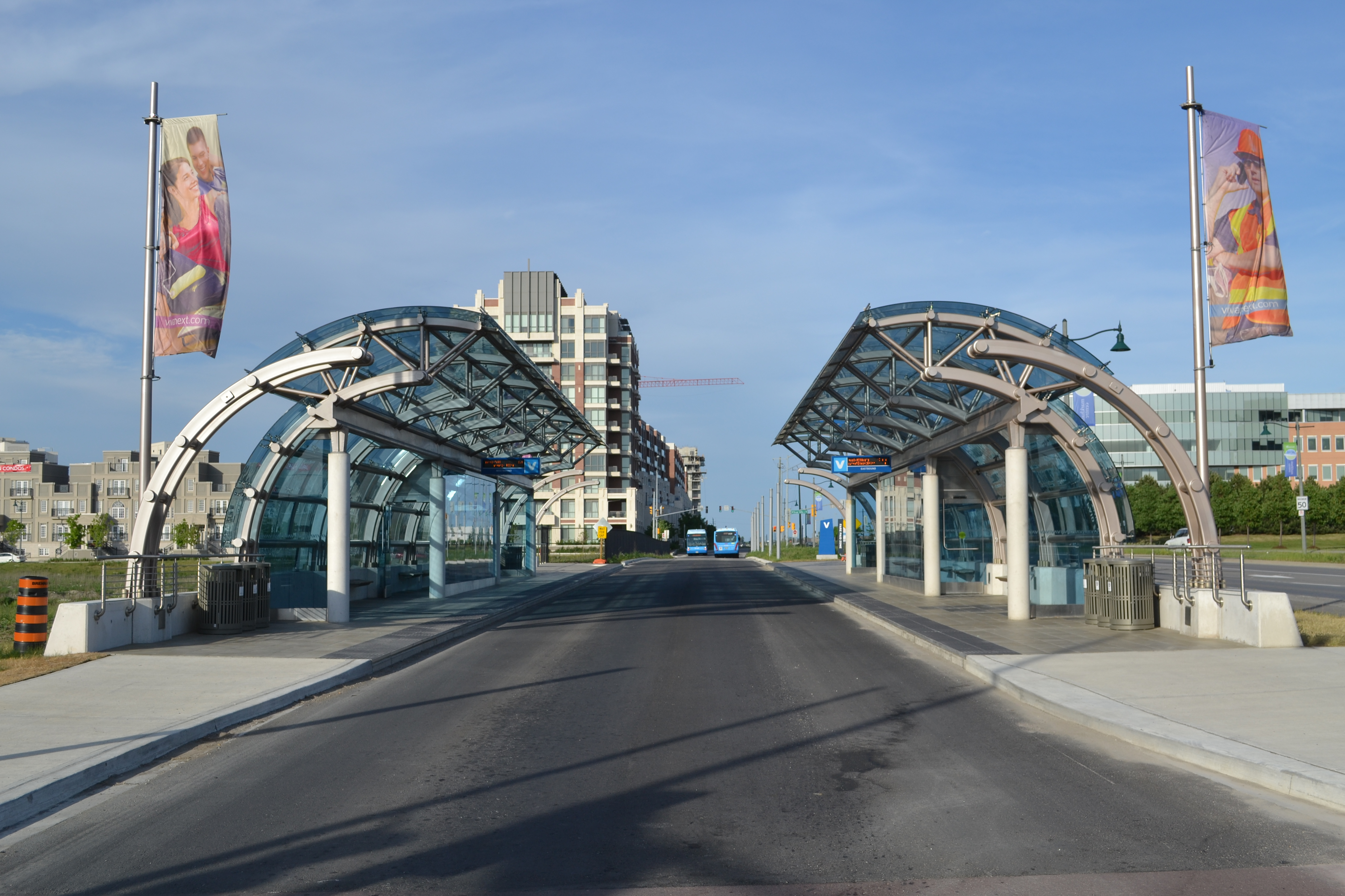 Warden VIVA Terminal